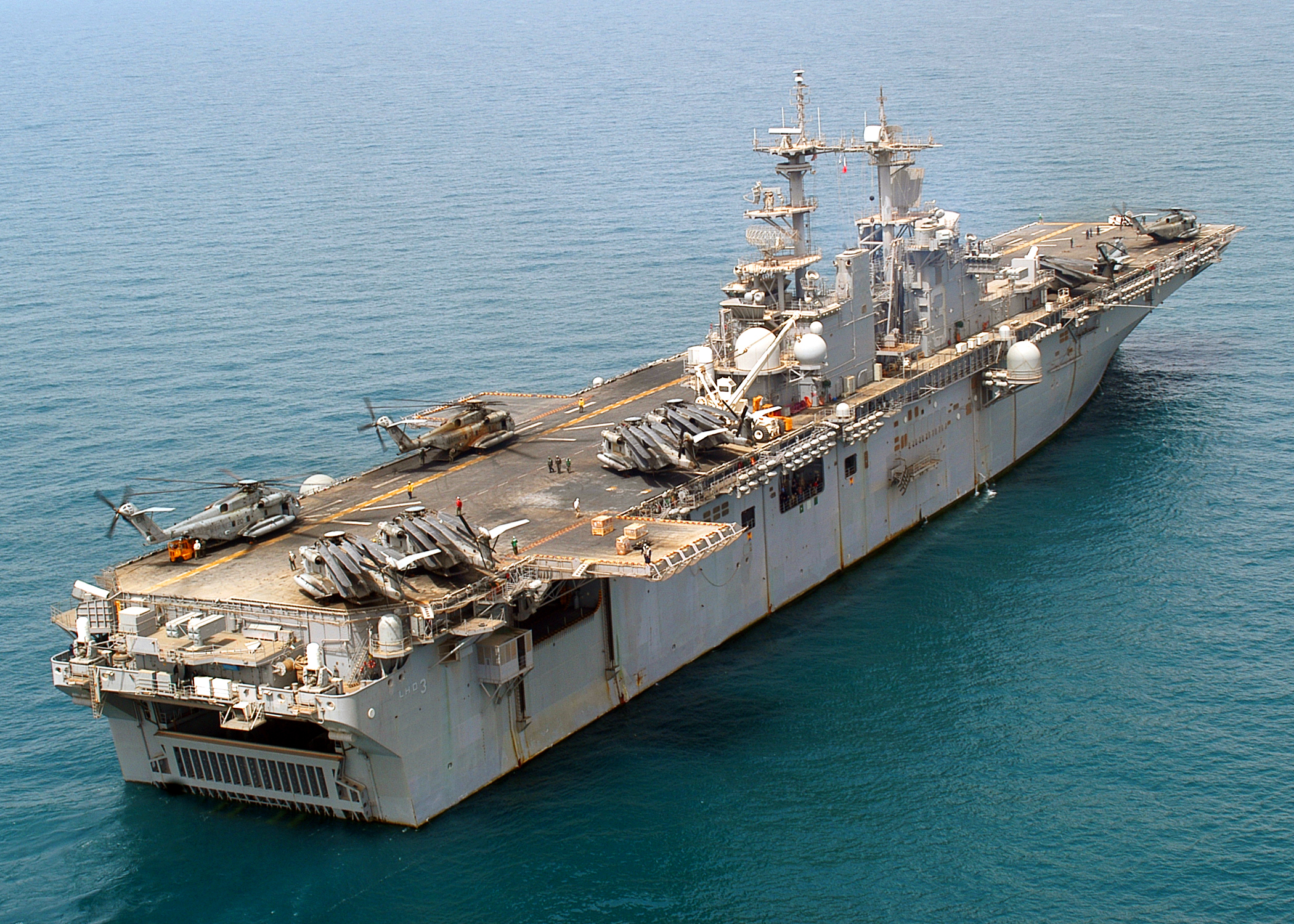 The Arabian Gulf (Mar. 30, 2003) -- The amphibious assault ship USS Kearsarge (LHD 3) conducting combat missions in support of Operation Iraqi Freedom. The deck is loaded with CH-53E Super Stallion helicopters assigned to the “Condors” of Marine Heavy Helicopter Squadron (HMH 464). Operation Iraqi Freedom is the multinational coalition effort to liberate the Iraqi people, eliminate Iraq's weapons of mass destruction and end the regime of Saddam Hussein. U.S. Navy photo by Photographer’s Mate 3rd Class Angel Roman-Otero. (RELEASED)